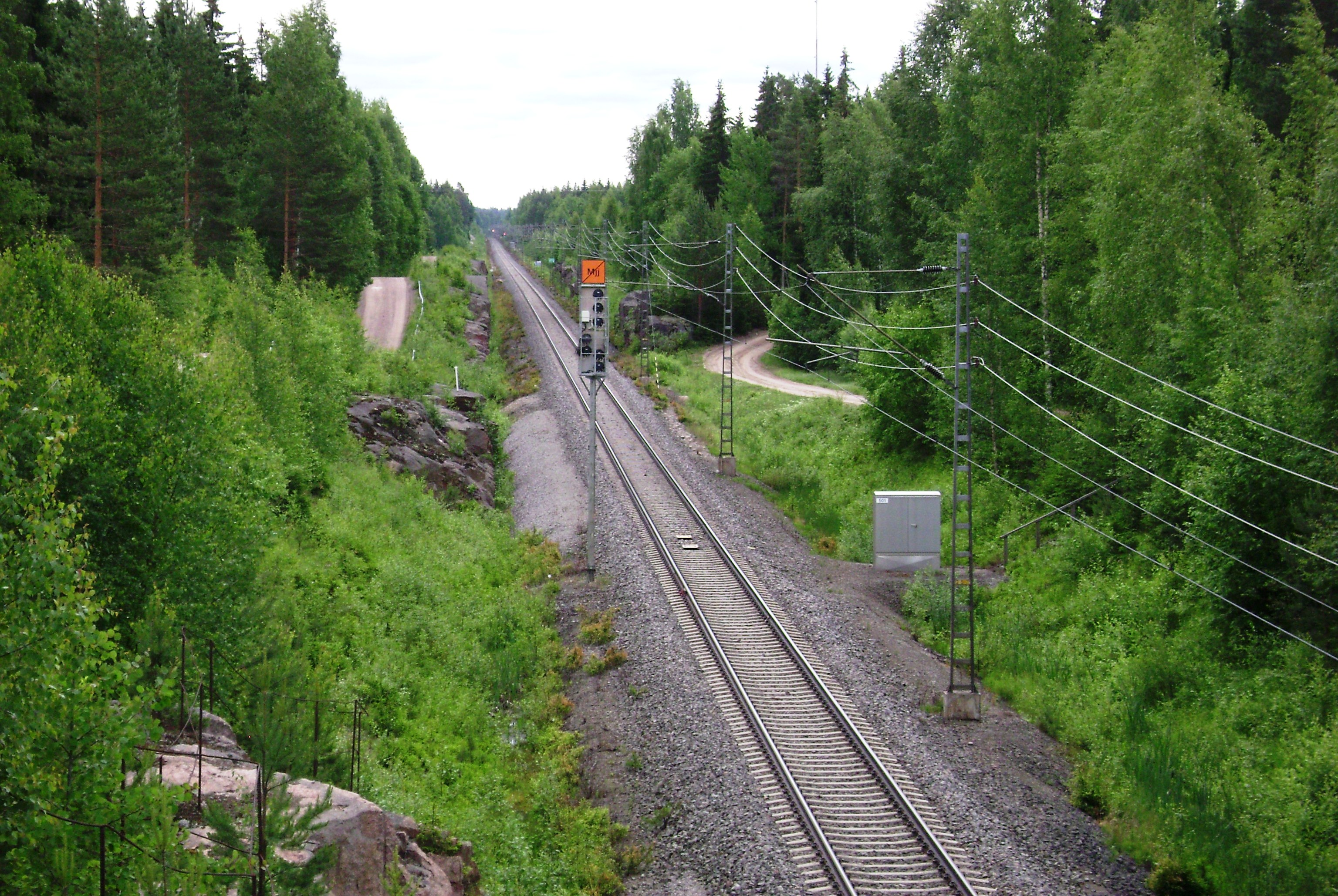 Tampere–Seinäjoki railway south of Majajärvi station.